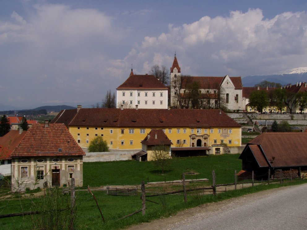 Benedictine Monastery of Sankt Paul im Lavanttal, Carinthia, Austria